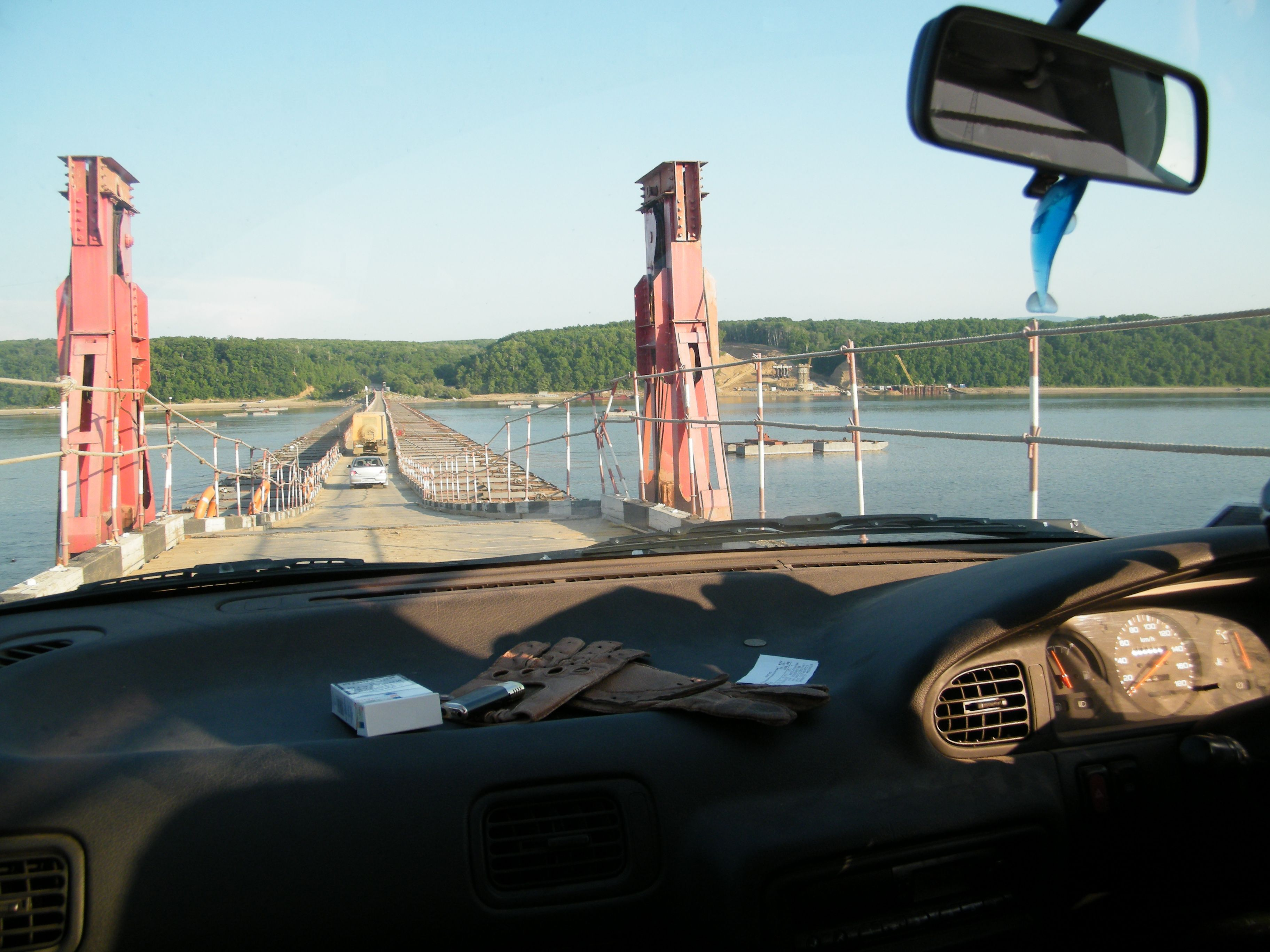 Понтонный мост через Амурскую протоку